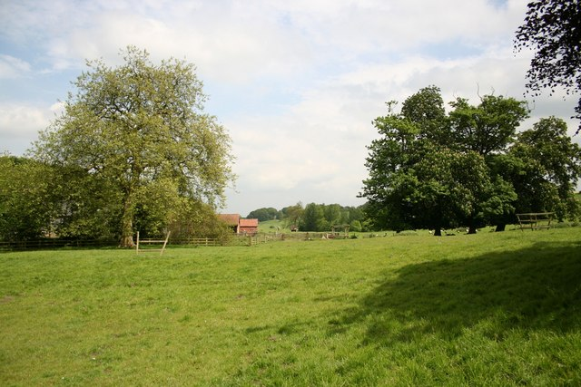 North Ormsby Priory site. The site of the Gilbertine Priory founded 1184, looking towards the current village of North Ormsby